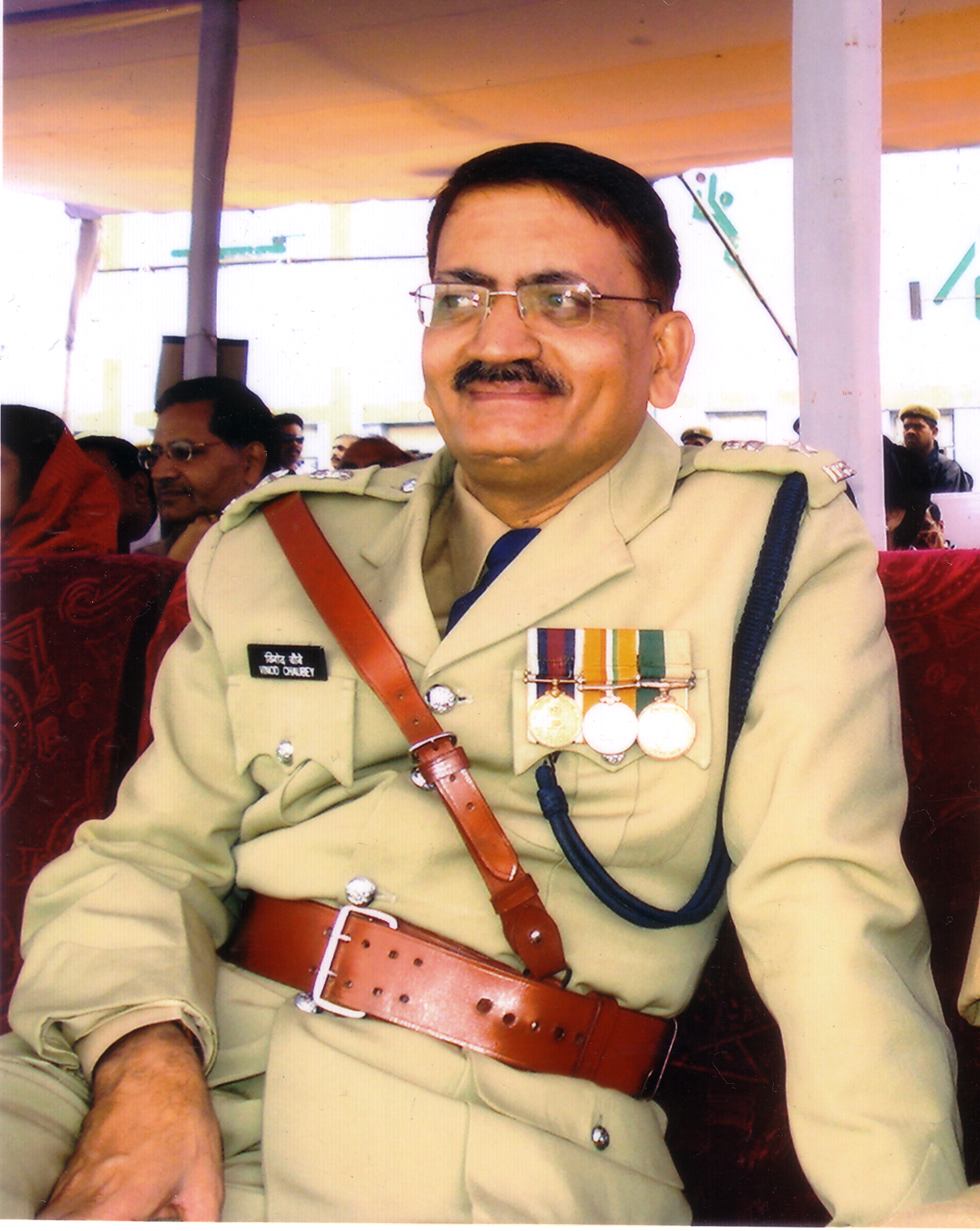 Vinod Chaubey, officer of the Indian Police Service attending the Republic Day parade in Rajnandgaon, Chhattisgarh, India on 26th January 2009.